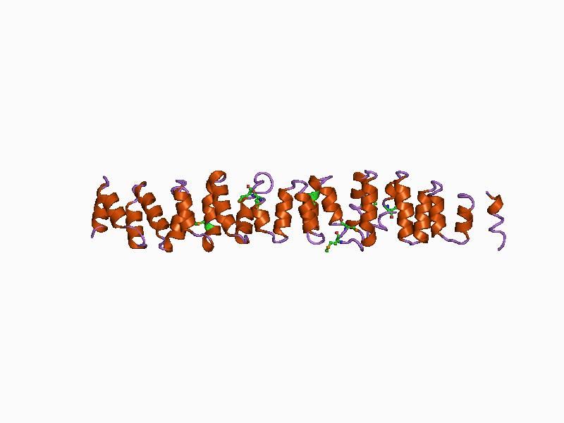 Cartoon representation of the molecular structure of protein registered with 1b89 code.